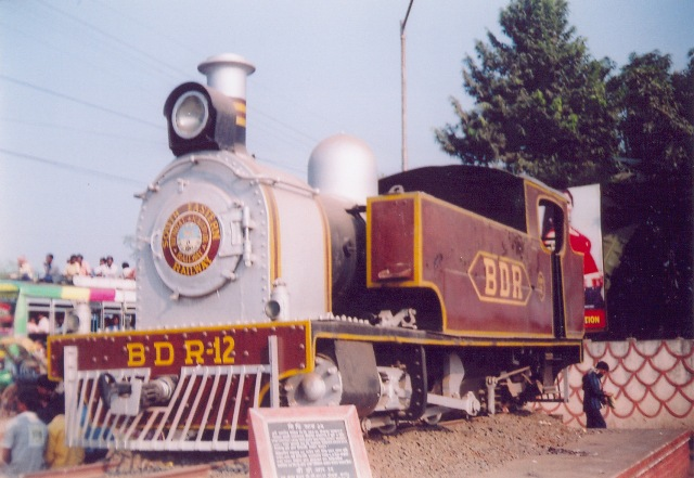 An old NG loco which was formerly served the old NG line, is now plinthed outside of Bankura Jn.